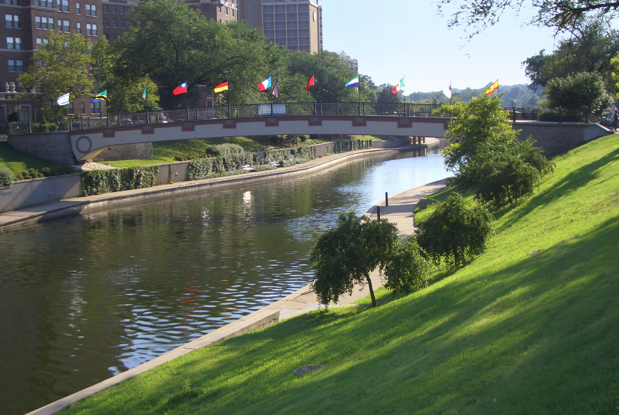 Sister Cities Bridge (with flags of Kansas Cities' sister cities) across Brush Creek in the Plaza, Kansas City, Missouri